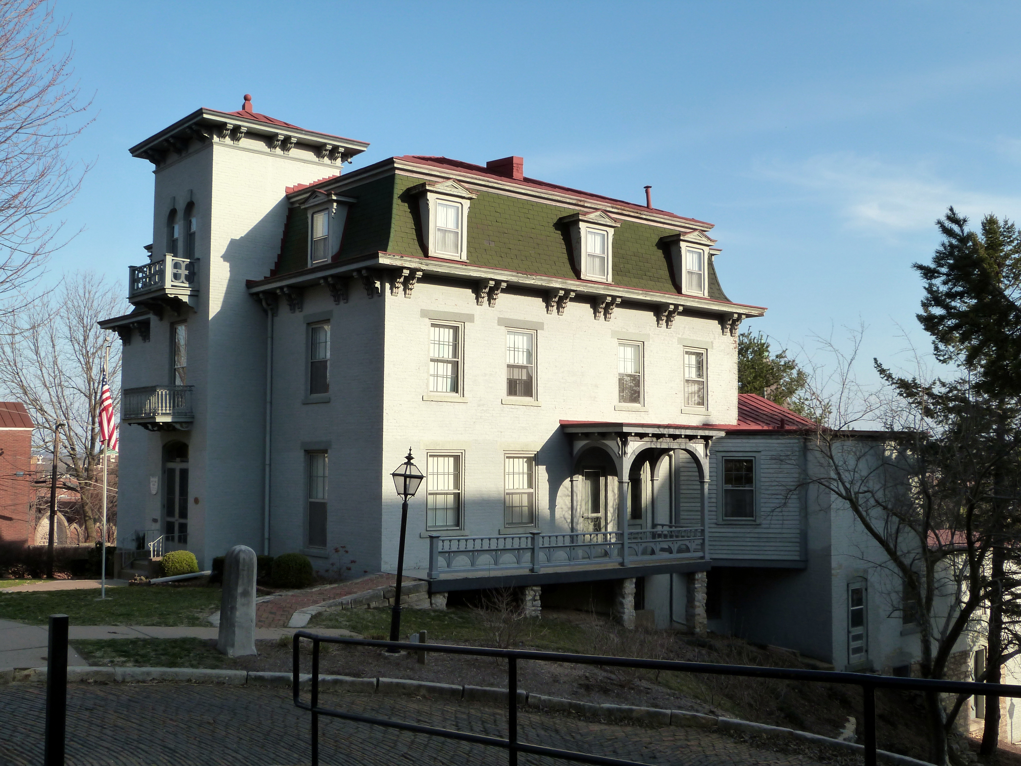 The historic Garrett-Phelps House (built 1851), located at 521 Columbia Street in Burlington, Iowa, United States, is listed as a contributing resource in both the Heritage Hill Historic District and the Snake Alley Historic District. Both historic districts are listed on the National Register of Historic Places.